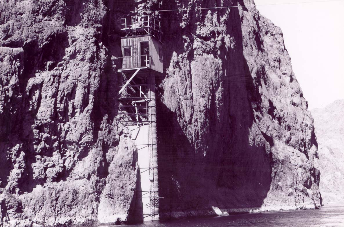 Willow Beach Gauging Station, Lake Mead National Recreation Area, Nevada. Note: The sun angle implies this is the west side of the river, the Eldorado Mountains range.